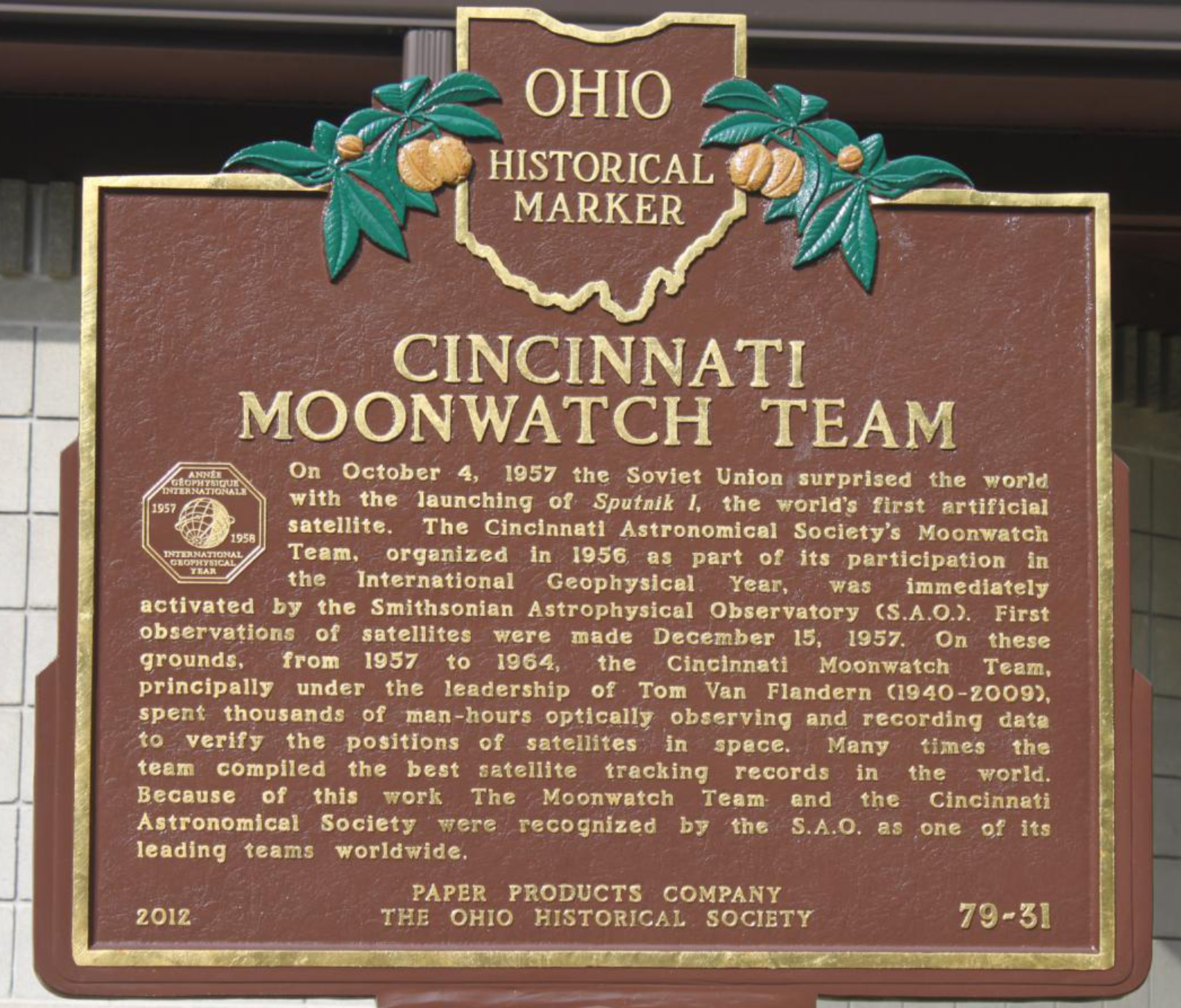 A historical marker placed by the city of Cincinnati and sponsored by the Cincinnati Astronomical Society, giving an account of the Project Moonwatch team that operated there.